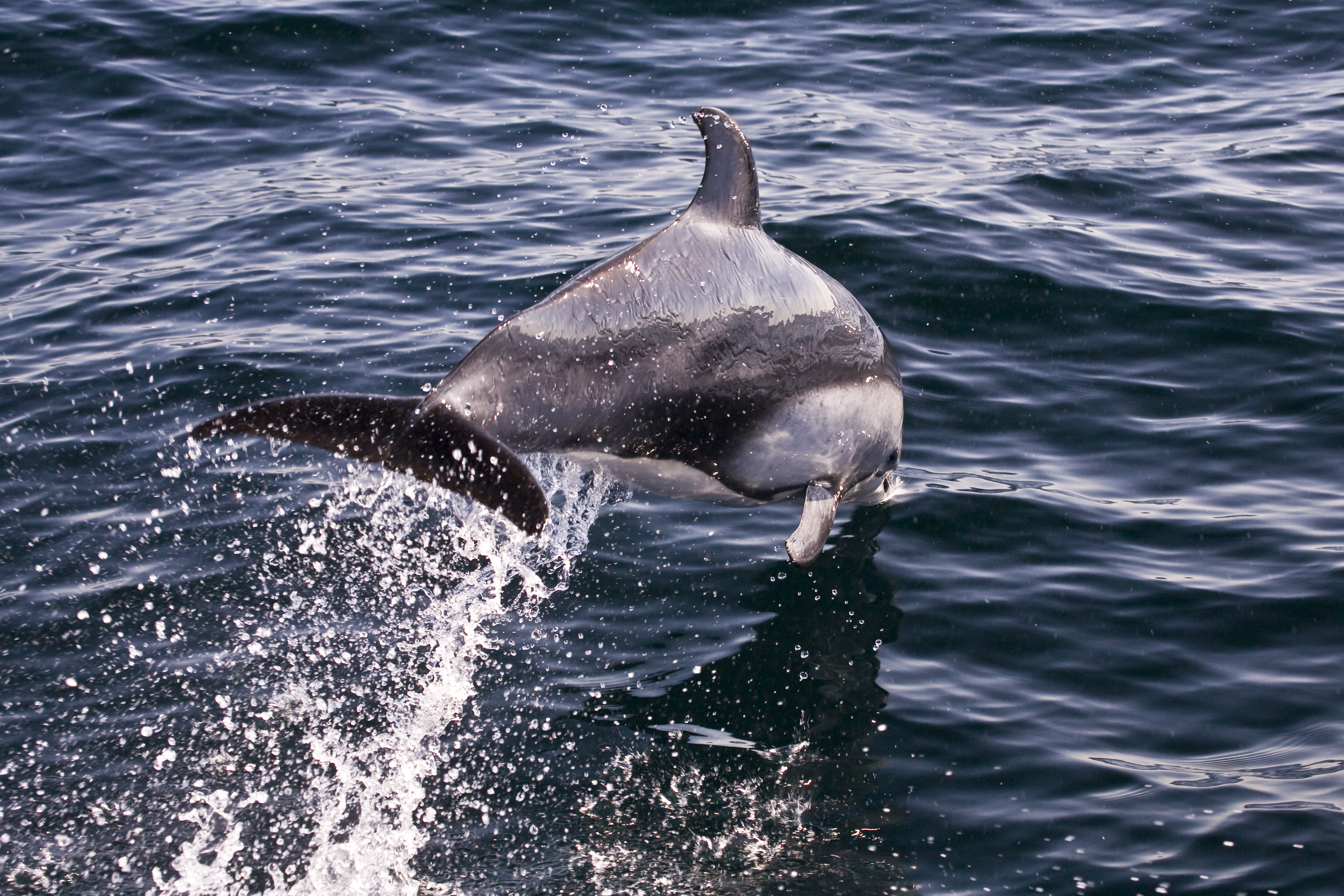 Pacific White-sided Dolphin (Lagenorhynchus obliquidens) (ID confirmed) - Pelagic Boat Trip - Leaders: Brian Sullivan, Brad Schram, Tom Edell - Sat. 19 Jan 2008 out of Avila, Port San Luis, CA - 2008 Morro Bay Winter Bird Festival